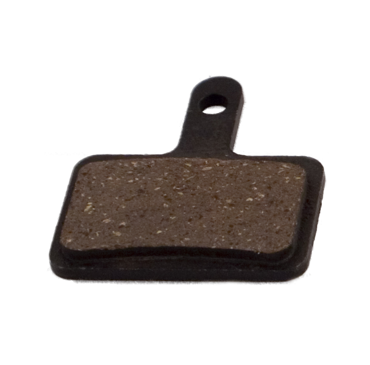 Disc pad